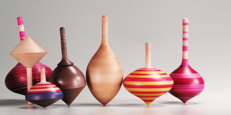 various shapes of toy spinning tops, made of Madrona wood, by David Earle